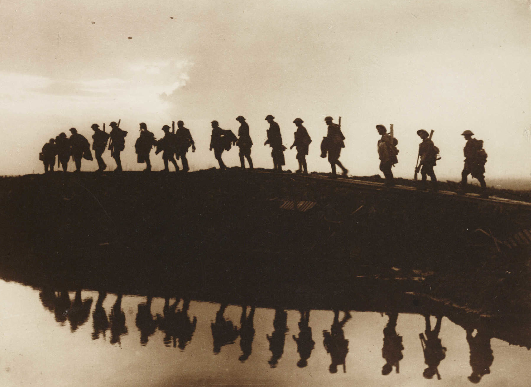 Supports going up after battle to relieve the front trenches, note the three observation balloons above the bright cloud. Collection of National Media Museum (Frank Hurley/Australian War Records Section)